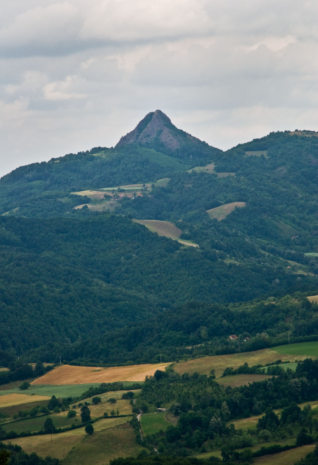 Ostrvica peak, viewed from Mutanj village.